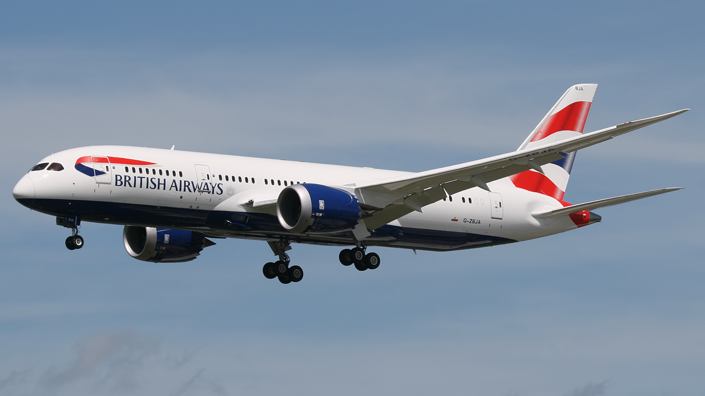 British Airways Boeing 787-8 Dreamliner G-ZBJA at London Heathrow